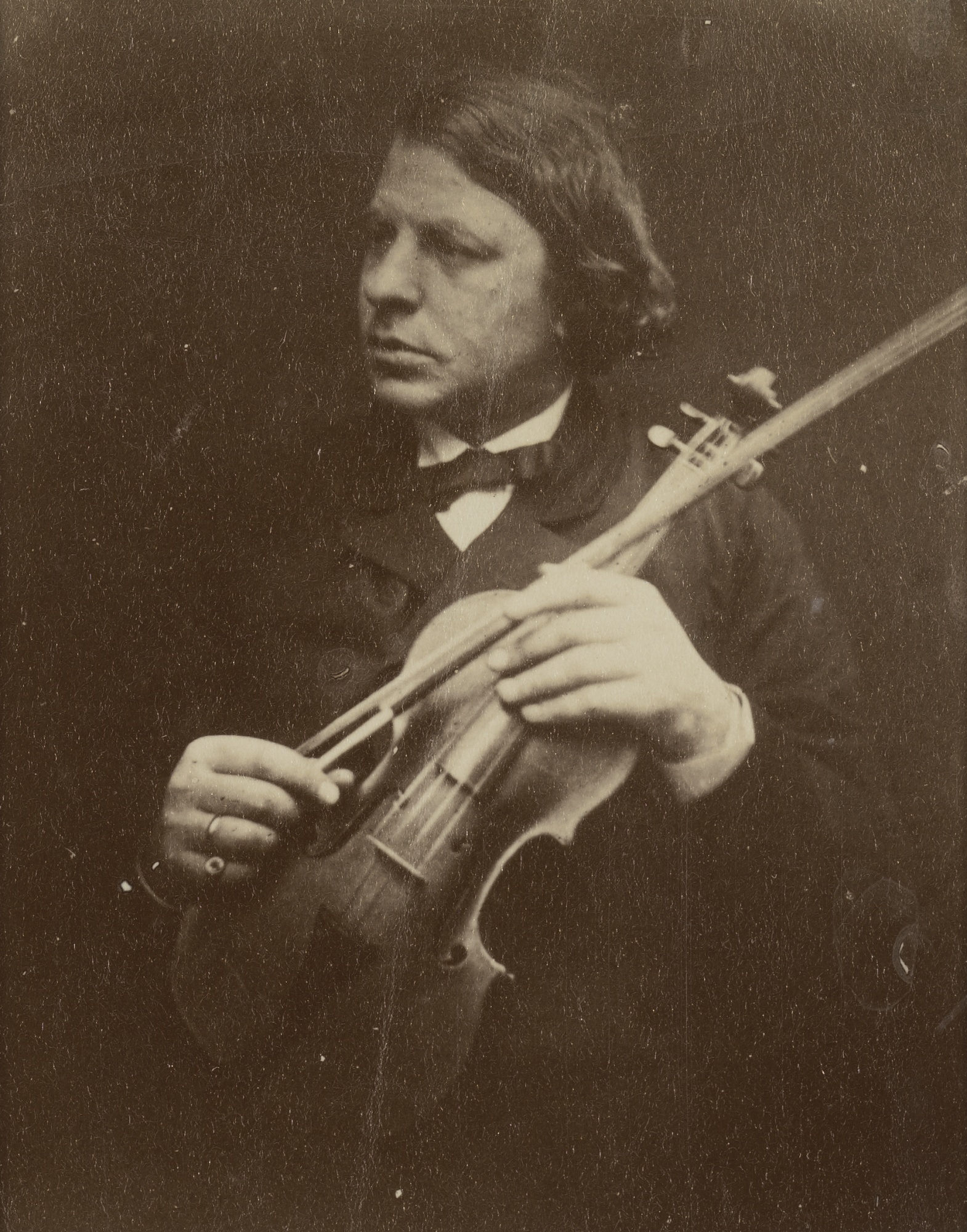 Joseph Joachim, 1868, photograph by Julia Margaret Cameron (1815—1879). Albumen copy print, on a modern mount, framed, the Buhl Collection label on the reverse, 1868 (Cox and Ford 696). 3¼ by 2¾ in. (8.3 by 7 cm.).